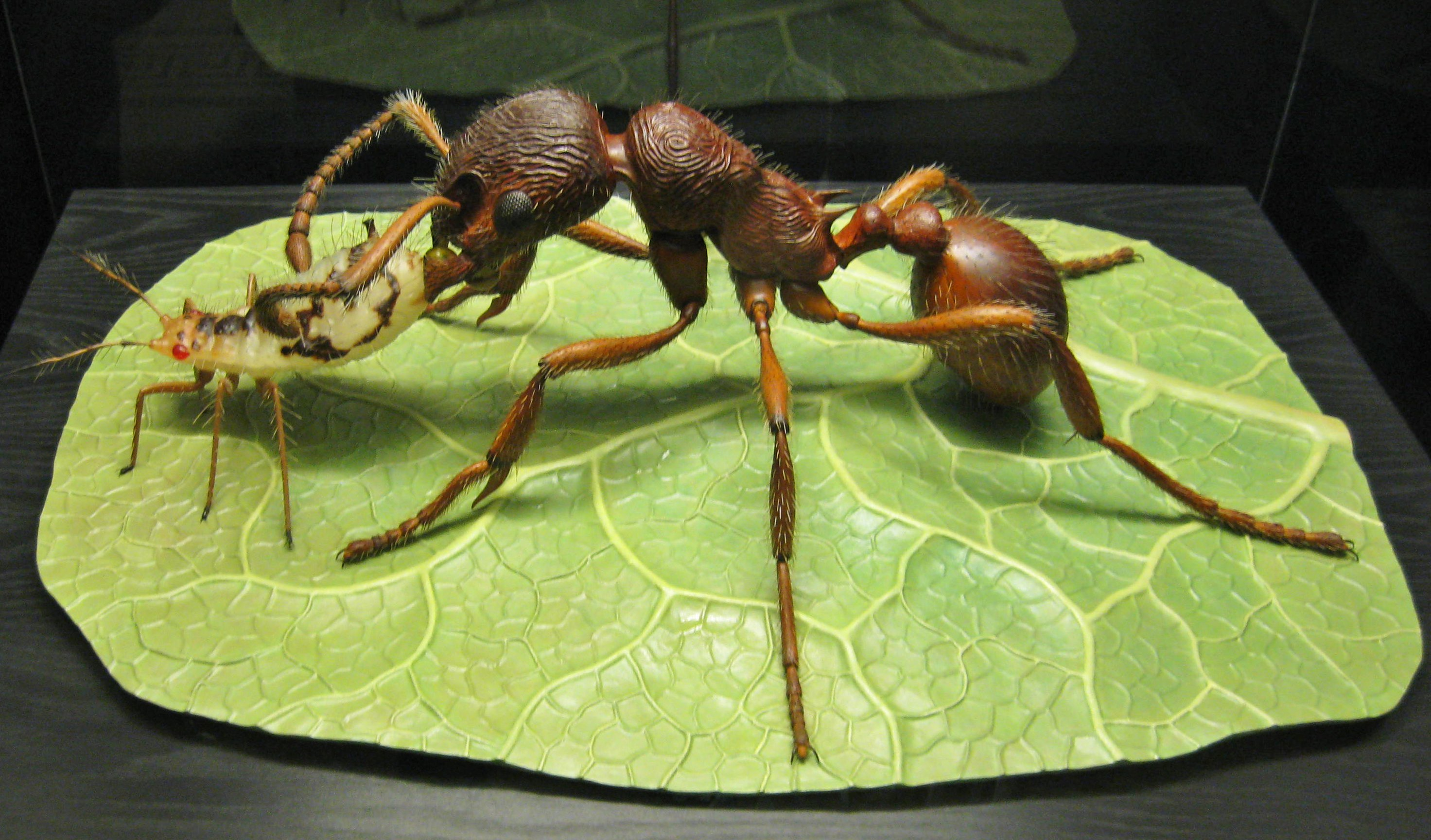 Ant milking an aphid, Periphyllus aceris